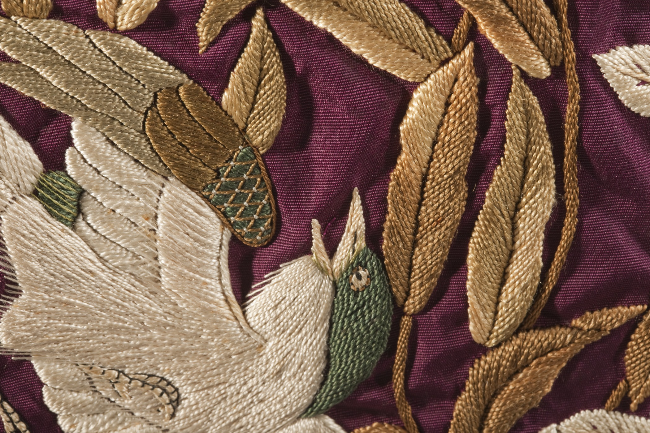 Yokohama, Japan, for the Western market, circa 1885 Costumes; nightwear (entire body) Gown : silk plain weave (faille) with silk embroidery; belt: silk braided cord with tassels Belt length: 67 in. (170.18 cm); Gown center back length: 63 in. (160.02 cm) Purchased with funds provided by Suzanne A. Saperstein and Michael and Ellen Michelson, with additional funding from the Costume Council, the Edgerton Foundation, Gail and Gerald Oppenheimer, Maureen H. Shapiro, Grace Tsao, and Lenore and Richard Wayne (M.2007.211.784a-b) Costume and Textiles